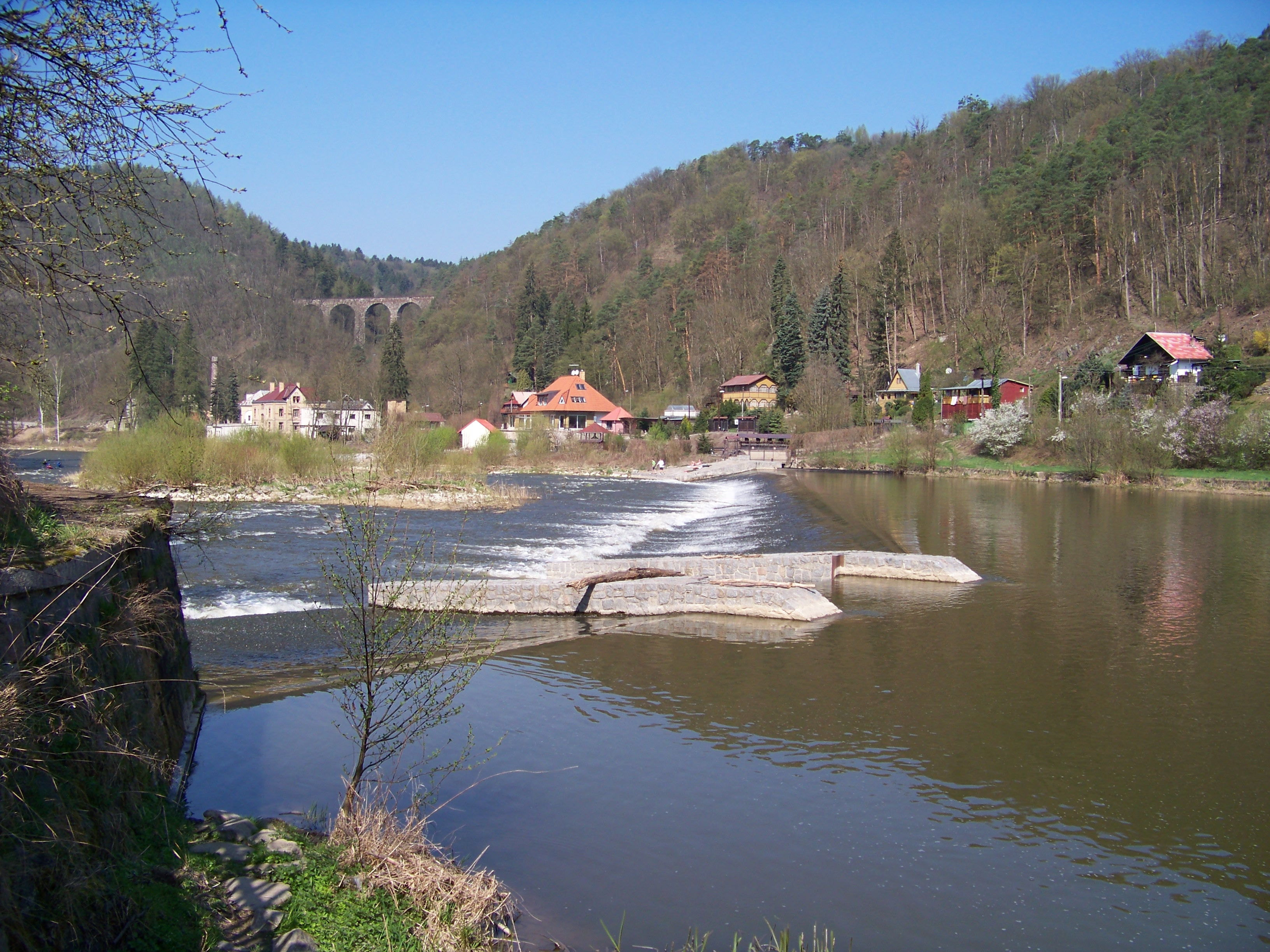 Jílové u Prahy-Žampach, Central Bohemian Region, the Czech Republic.